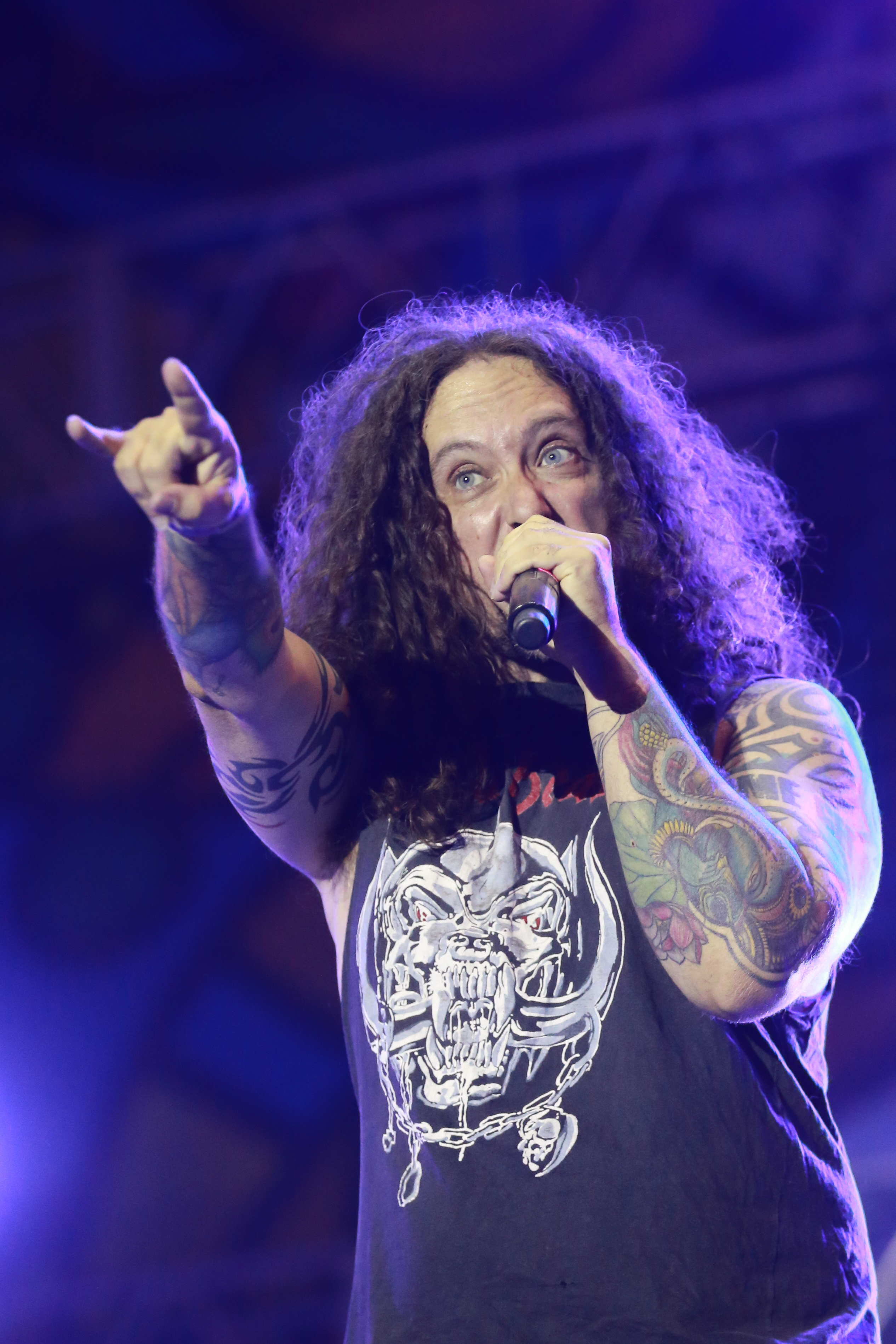 Pol'and'Rock Festival in 2018.